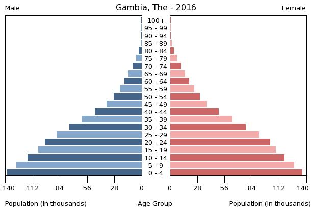 The population pyramid of the Gambia illustrates the age and sex structure of population and may provide insights about political and social stability, as well as economic development. The population is distributed along the horizontal axis, with males shown on the left and females on the right. The male and female populations are broken down into 5-year age groups represented as horizontal bars along the vertical axis, with the youngest age groups at the bottom and the oldest at the top. The shape of the population pyramid gradually evolves over time based on fertility, mortality, and international migration trends.